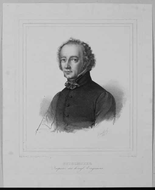 The germabn sculpteur Johann Baptist Stiglmaier (1791-1844)